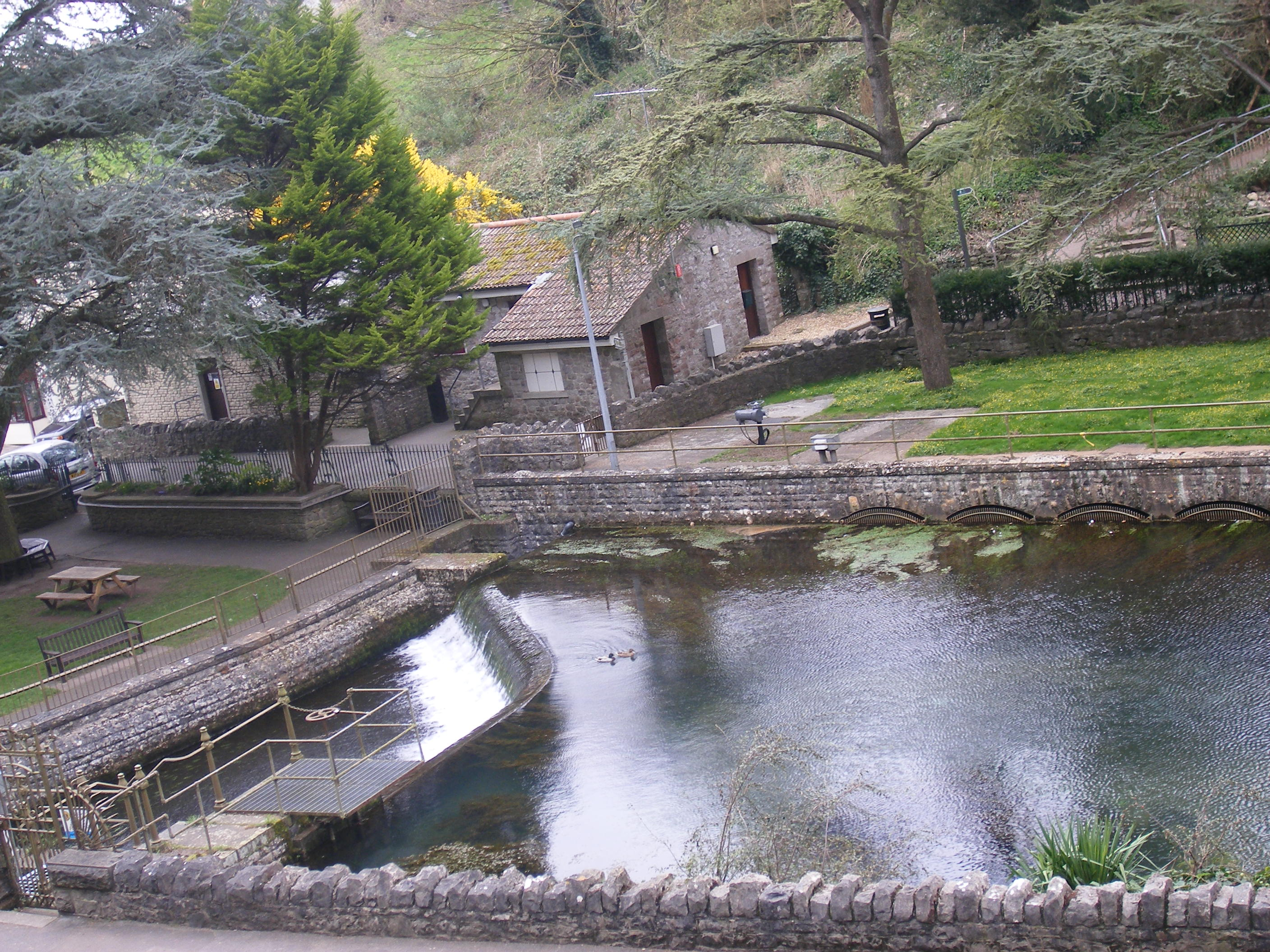 The Cheddar Yeo in Cheddar Gorge feeds the reservoir through the metal grilles that can be seen in the wall in the centre of the picture